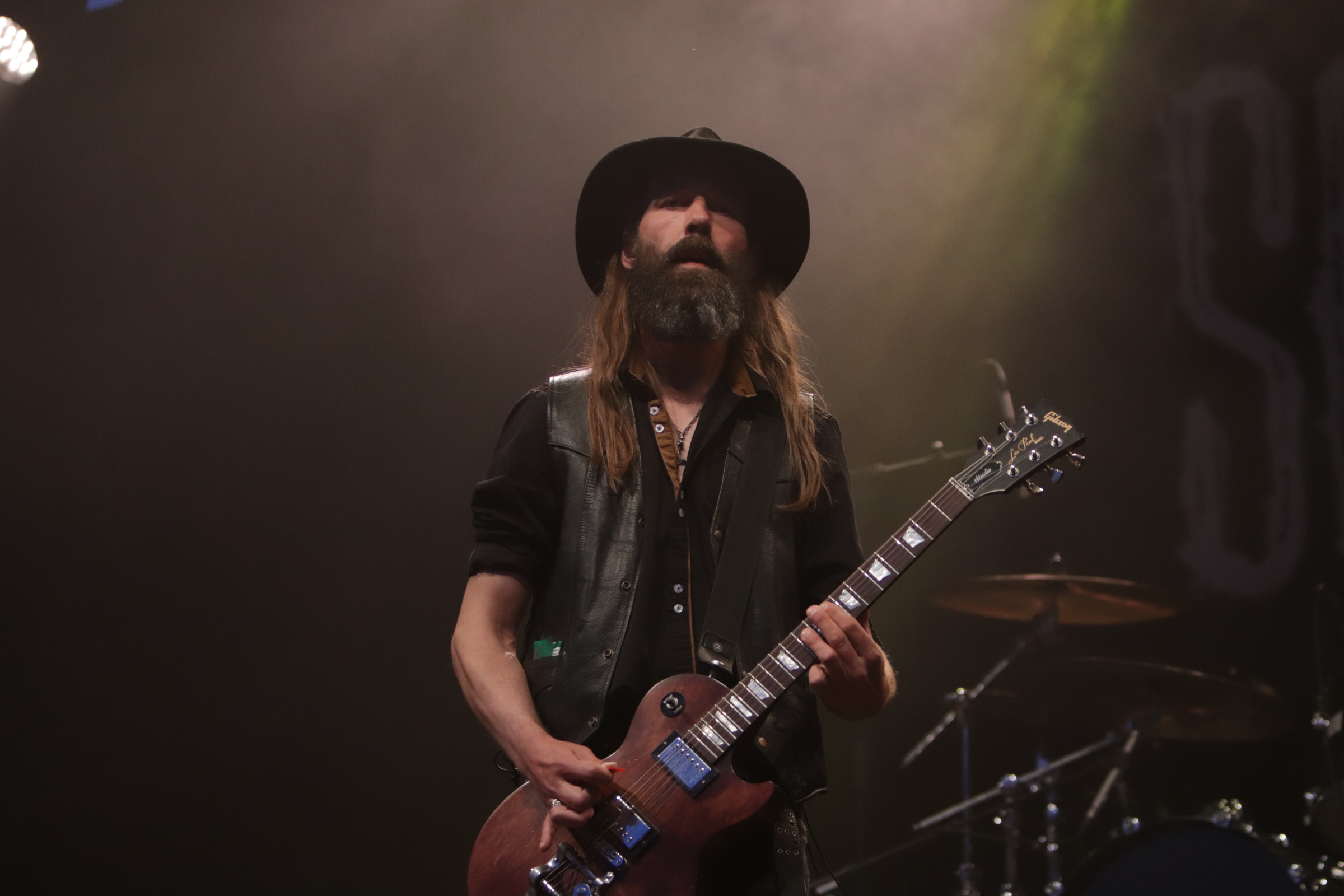 Sólstafir at John Smith 2019 festival in Peurunka, Finland